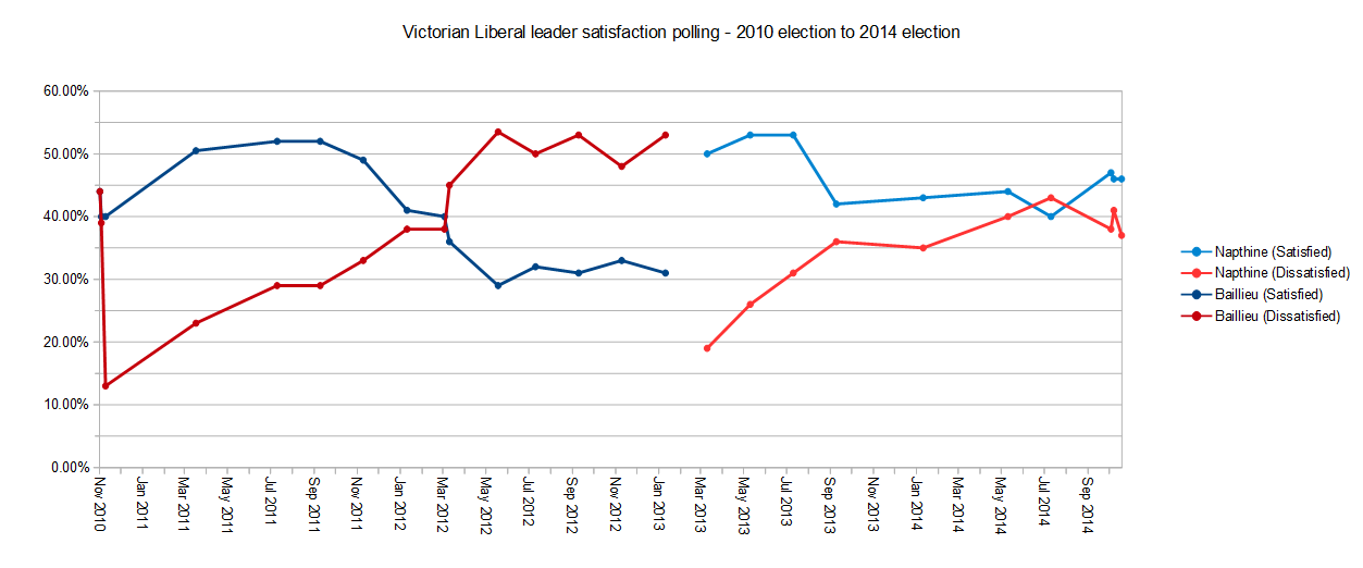 Victorian Liberal leader satisfaction polling, 2010-2014 Created with OpenOffice from data sourced from Victorian state election, 2014.